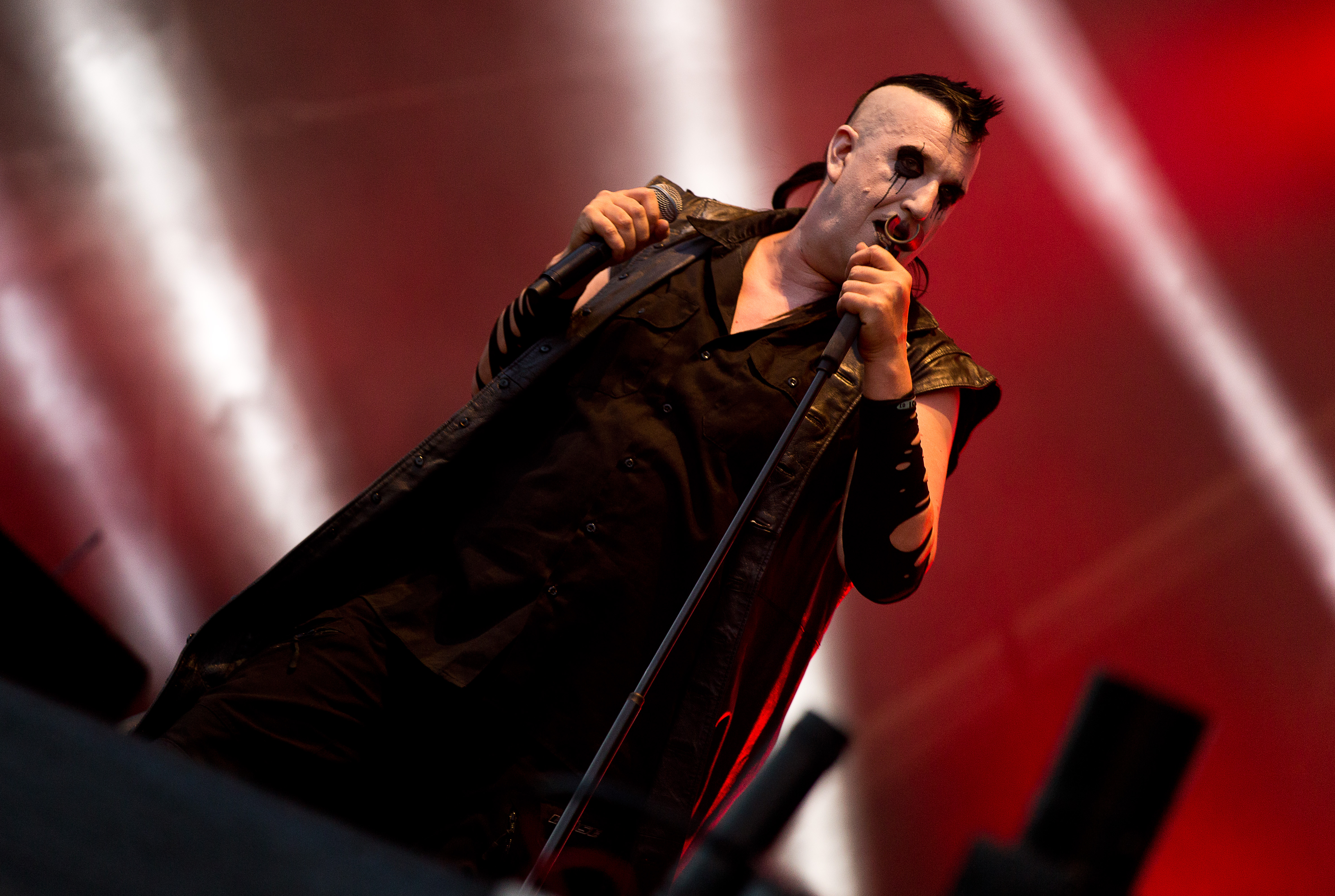 The German rock band ASP at the Rockharz Open Air 2016 in Ballenstedt/Germany.